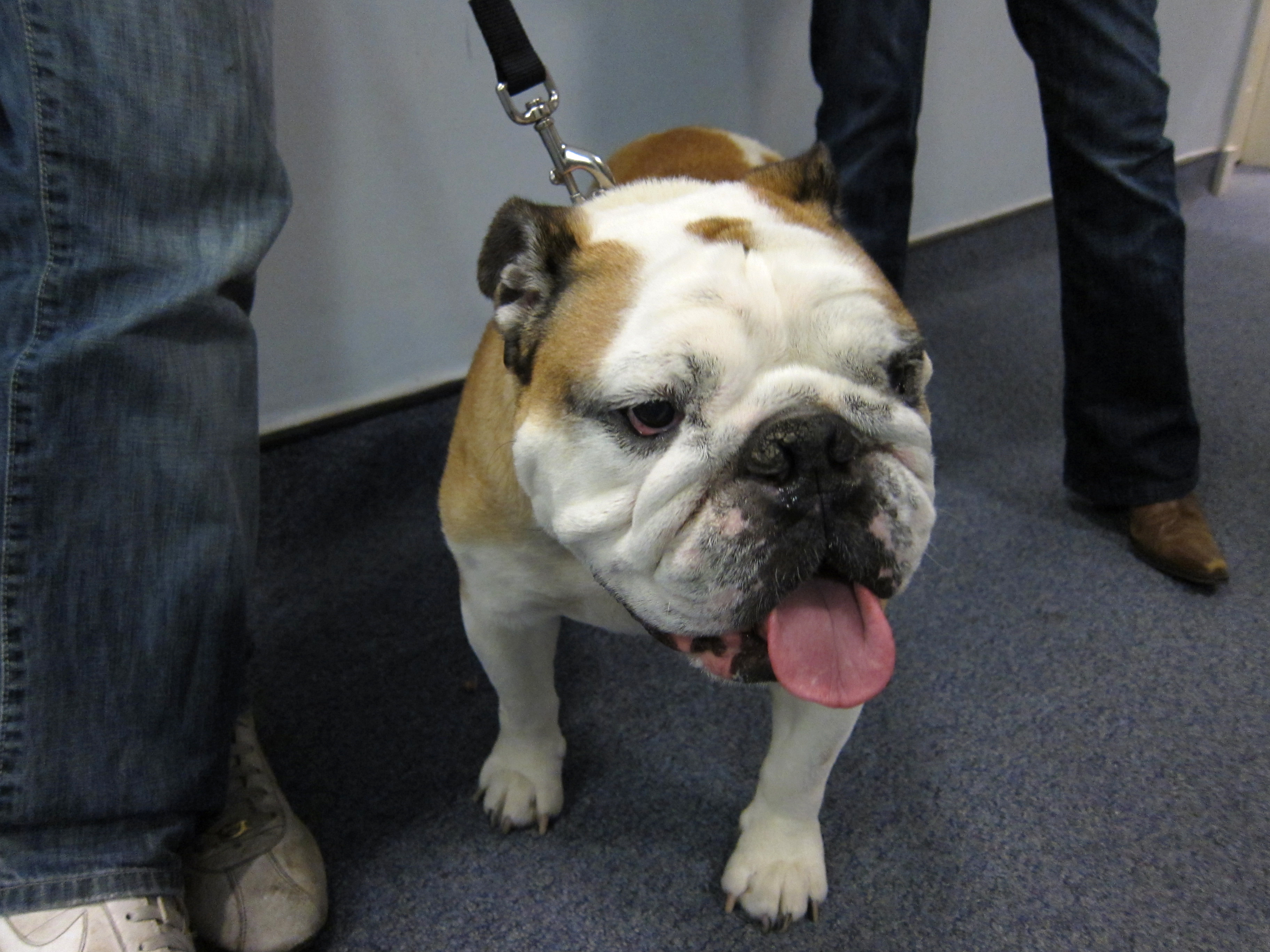 Jack (the Georgetown mascot) came by to visit incoming Bachelor of Arts in Liberal Studies students on Friday night at New North. (I was there to introduce the blog the students use to keep in touch throughout the semester.)